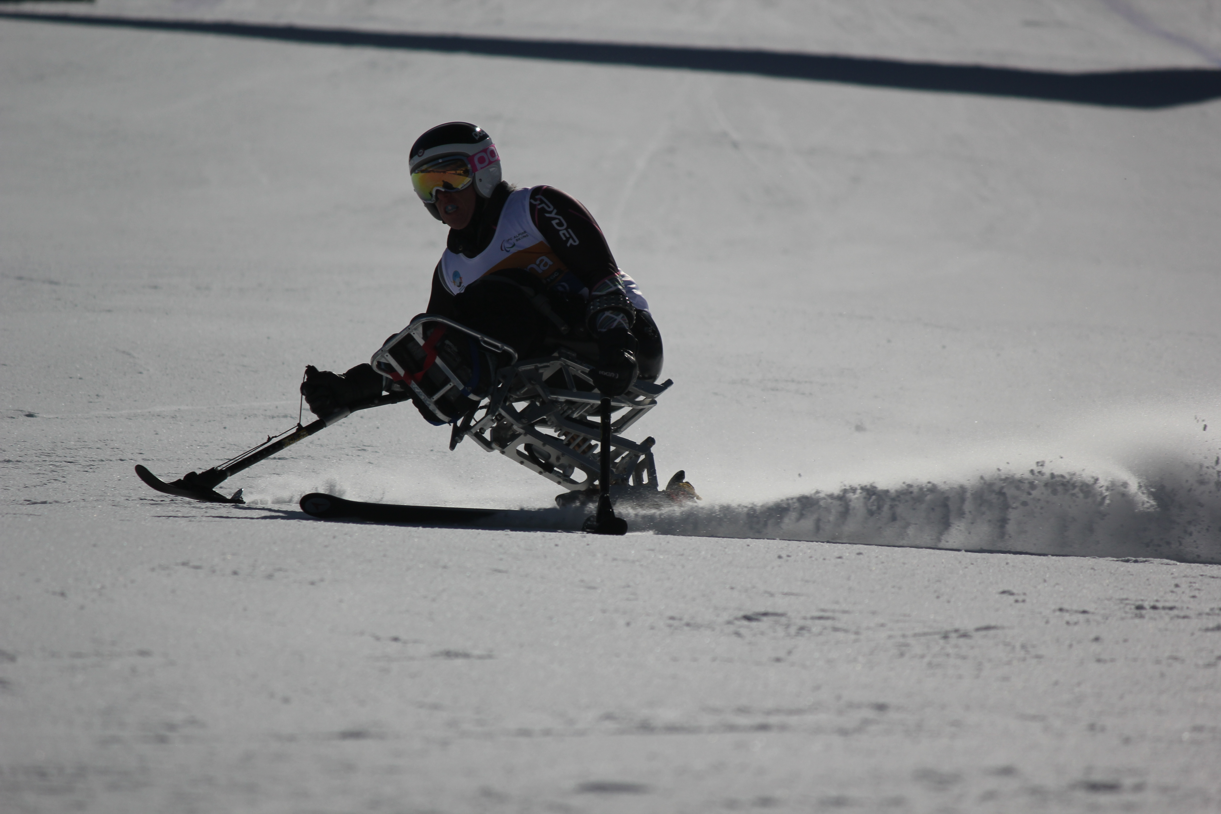 IPC Alpine World Championships in La Molina, Spain. Super-G event on Thursday. Women's sit skier Laurie Stephens of the United States